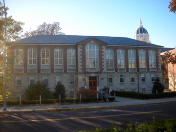 University of Missouri School of Law, Tate Hall, built 1927